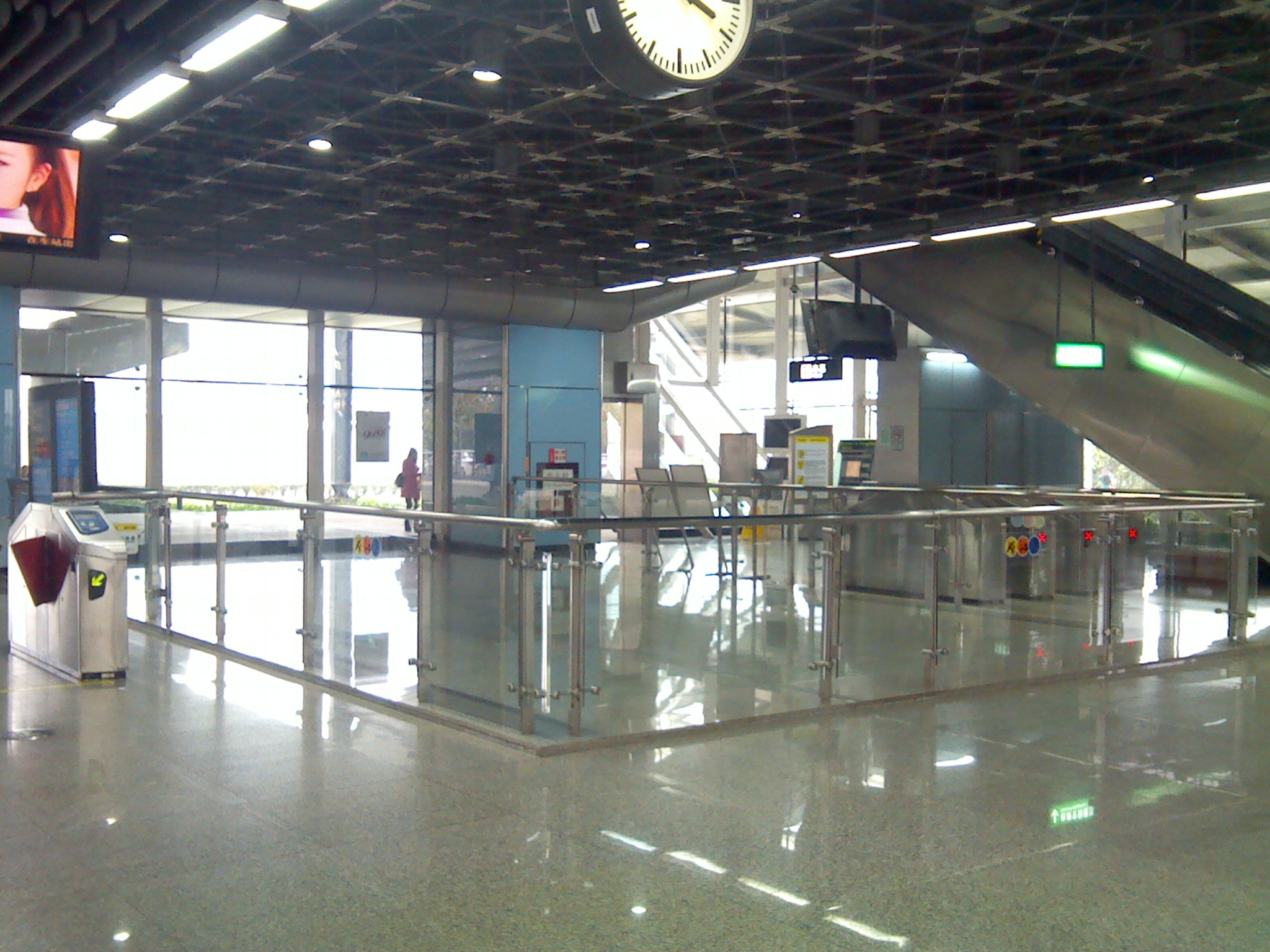 海傍站内的三号线换乘预留